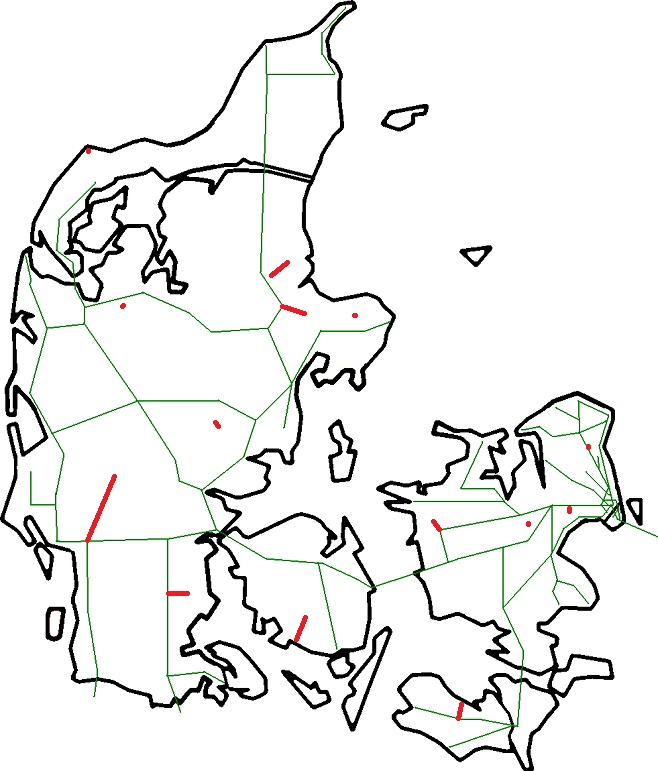 Map of railways in Denmark with heritage railways in red.